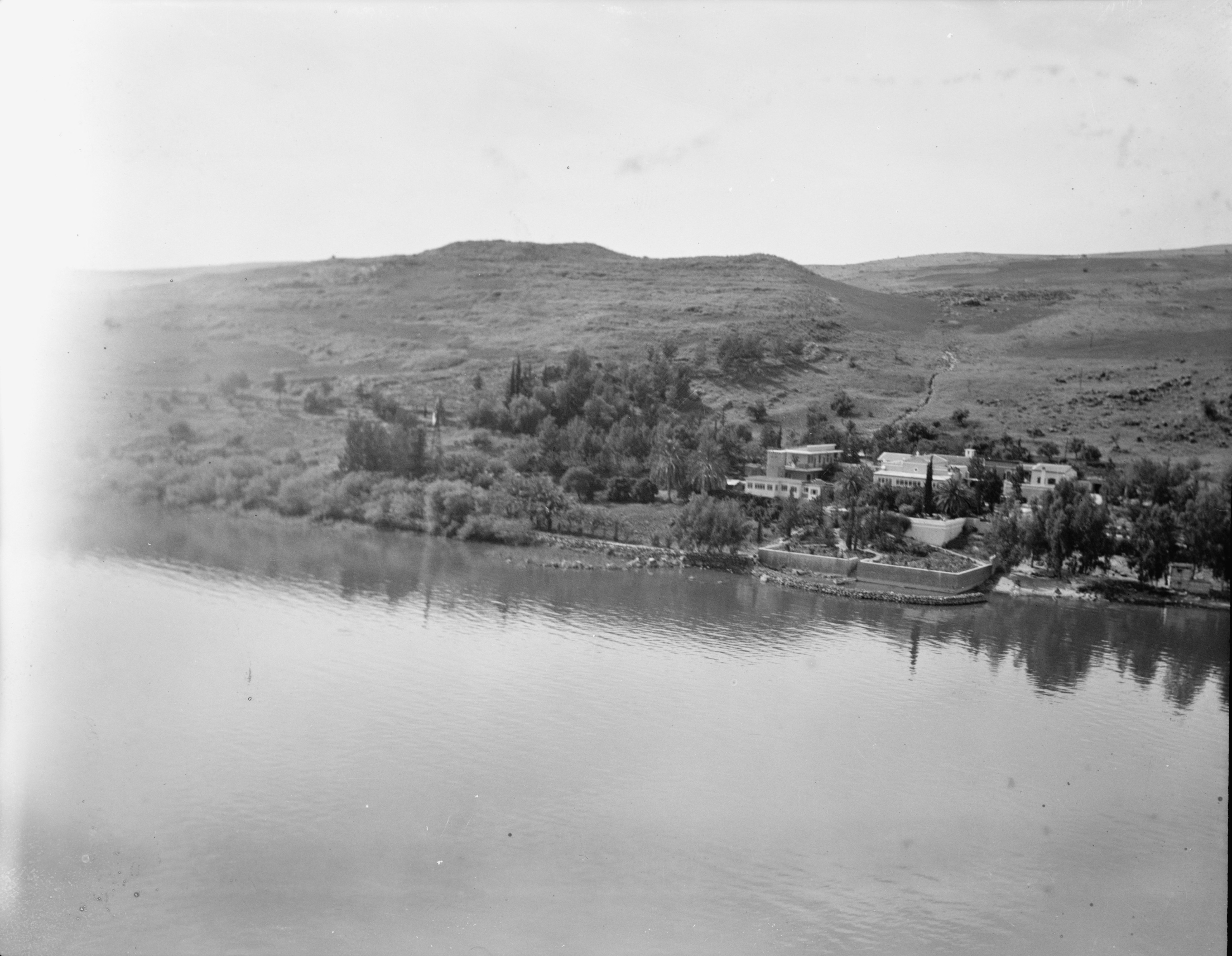 Title: Air films (1937). Tabgha. (Father Tapper's) Abstract/medium: G. Eric and Edith Matson Photograph Collection Physical description: 1 negative